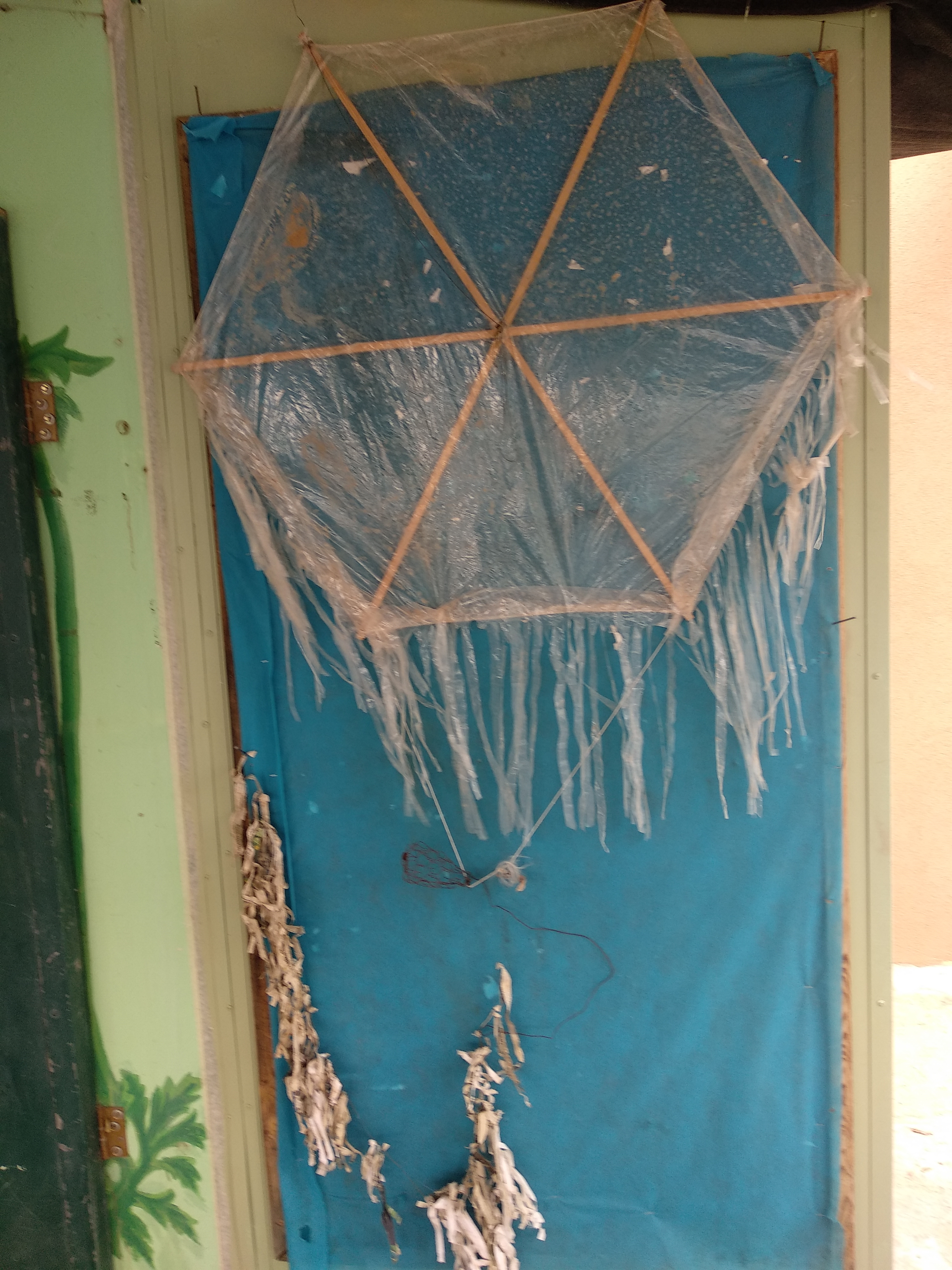 the kite was sended off from Gaza strip with burning object conected to the tip of its tail in purpose to Cause fires in the fields of Eshkol Regional Council